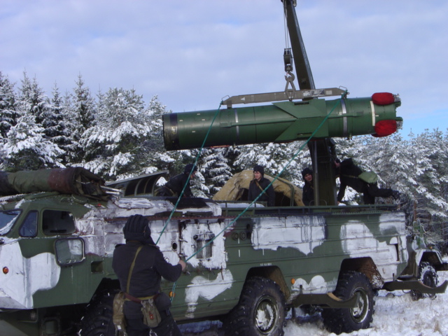 10-12.02.2004 - fire training and its live practice in winter in Poland within Drawsko Training Area. Technical battery - fitting the warhead.